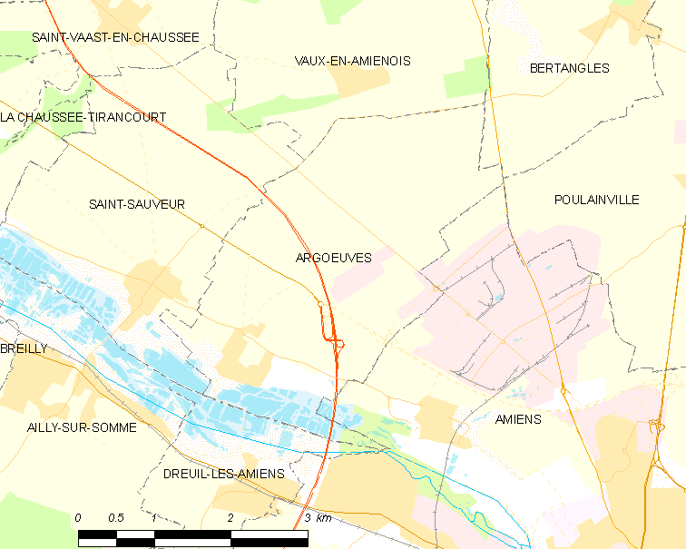 Map of French municipality Argœuves